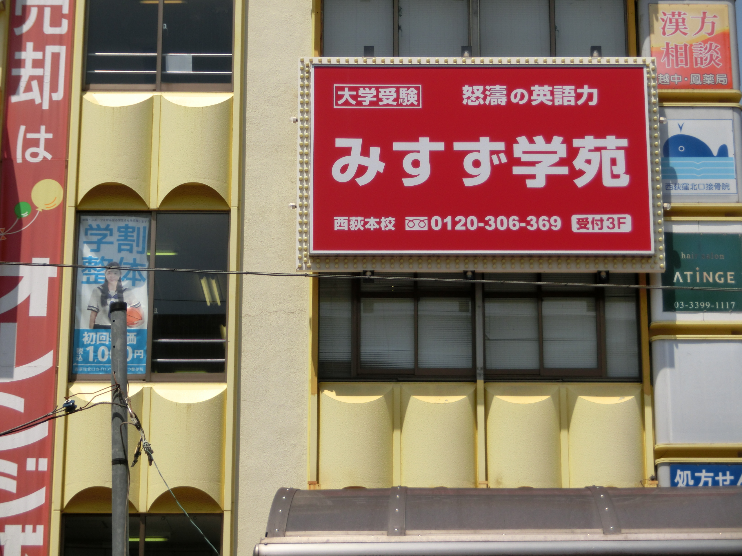 Misuzu Gakuen Nishiogi School